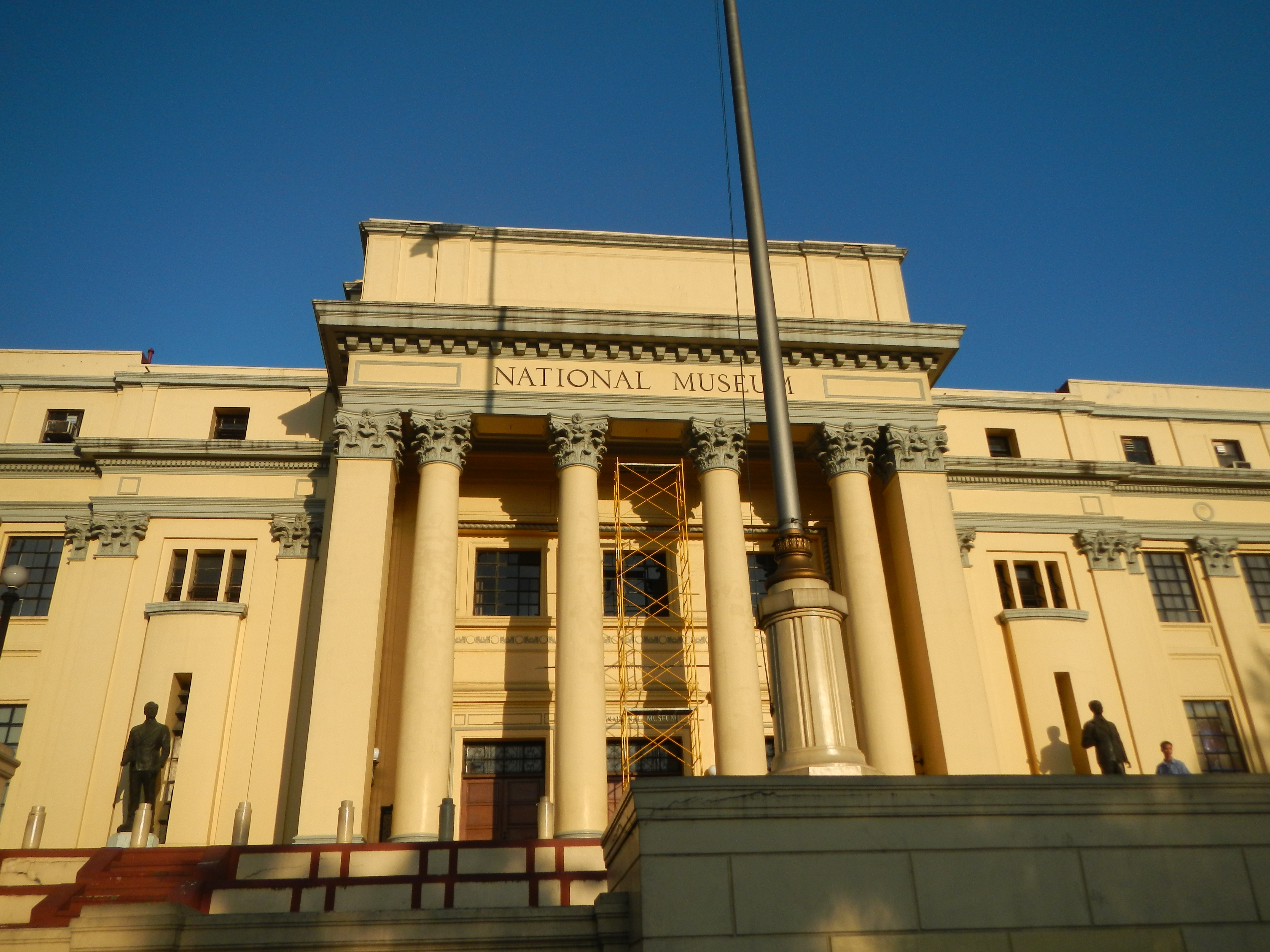 National Museum of the Philippines[1]